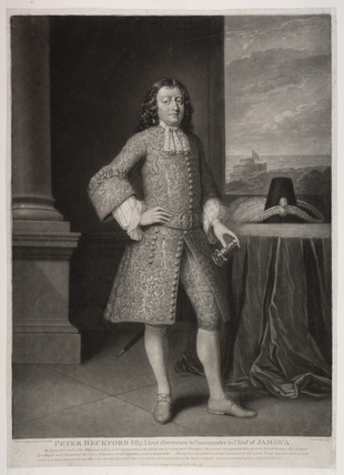 A posthumous portrait of Peter Beckford (1643-1710), painted by John Murphy in 1793.